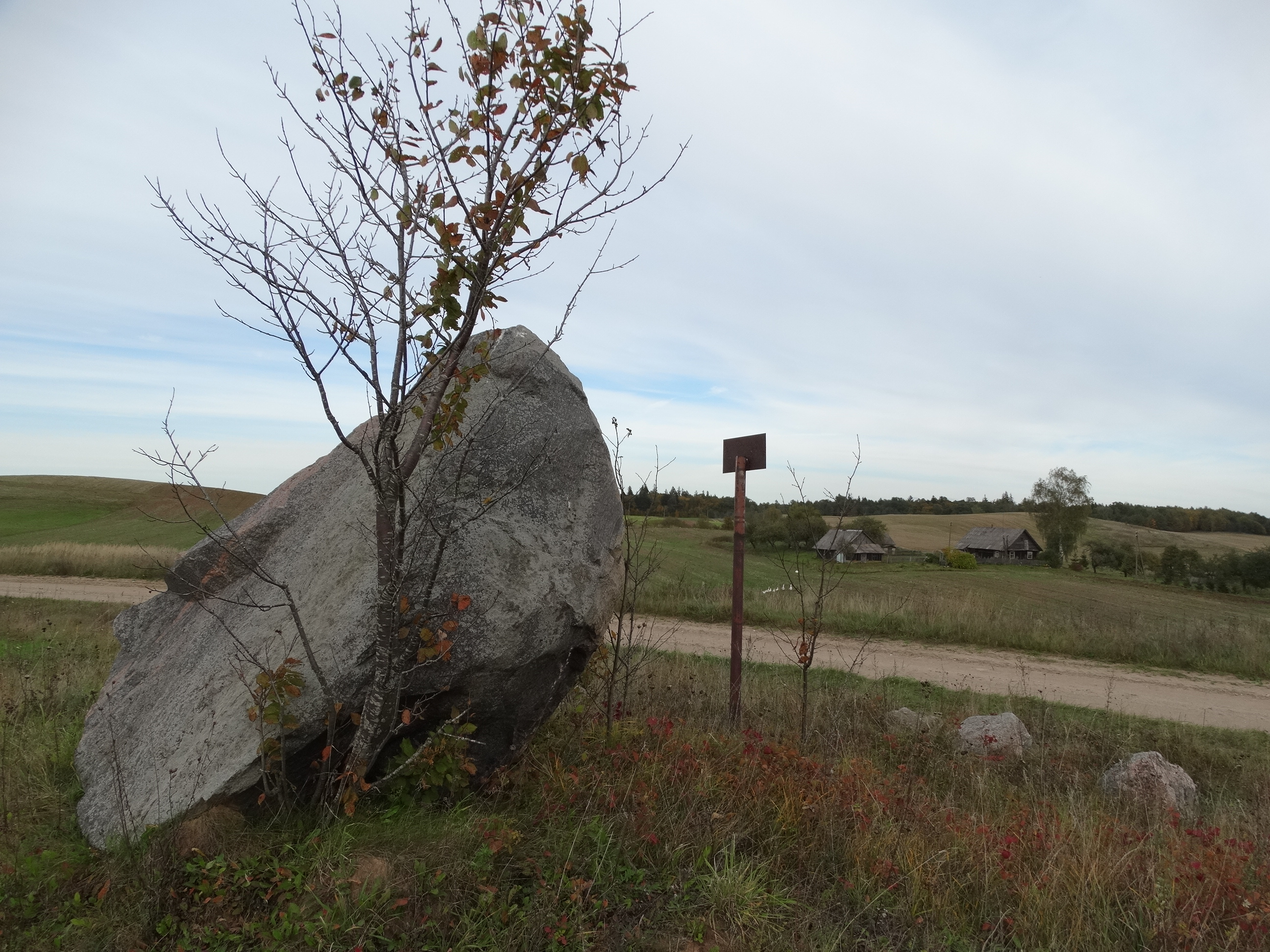 Girgždai stone, Kaišiadorys District, Lithuania